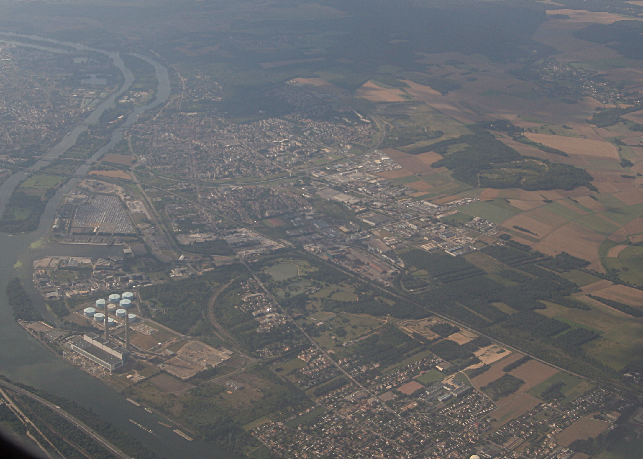 Aerial view of Limay and Porcheville.